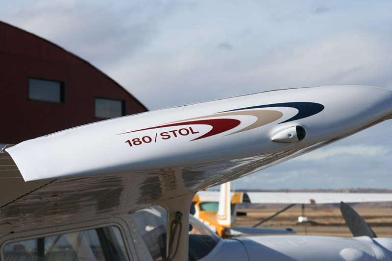 The wingtip of a Cessna 180.